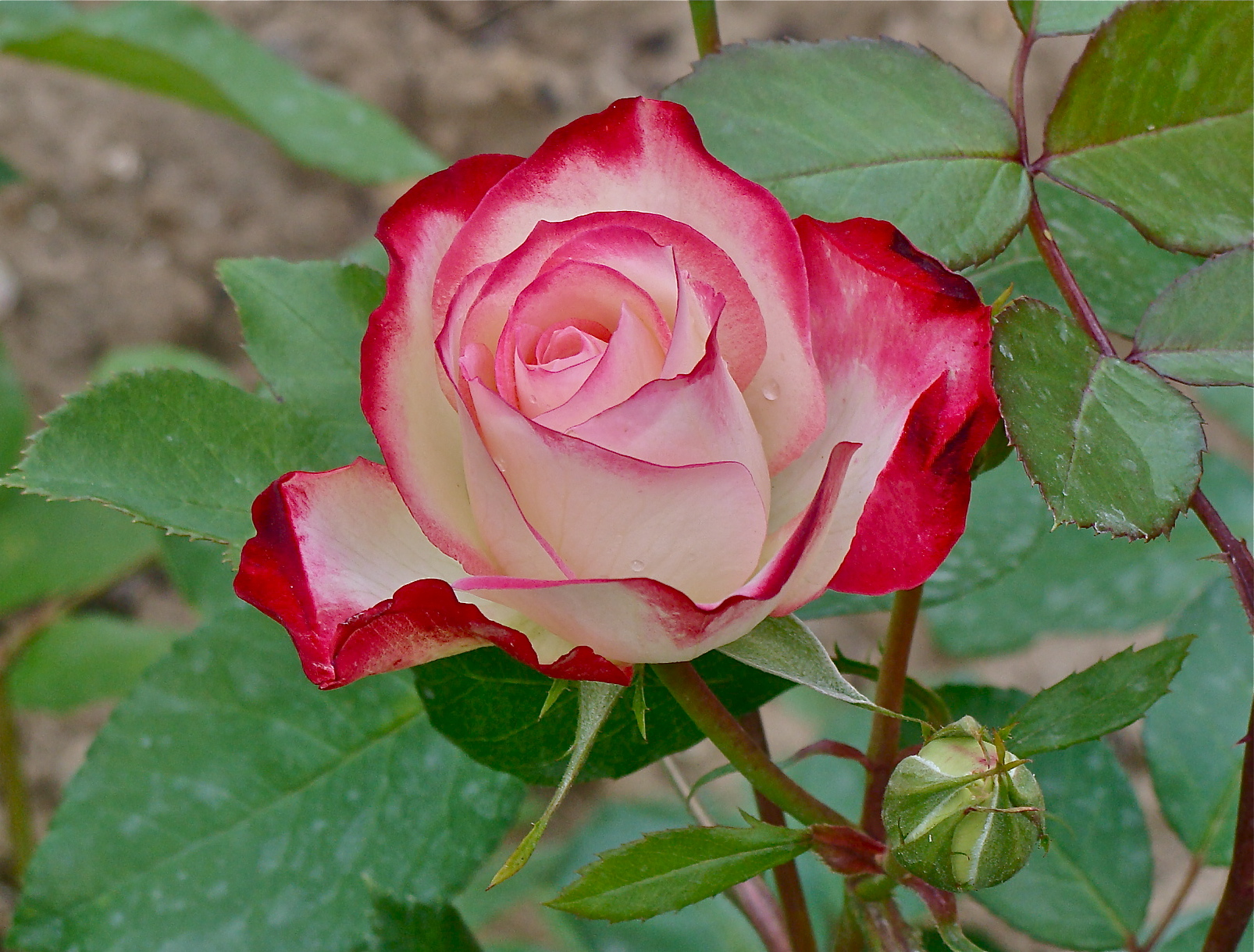 tea rose hybrid and bud